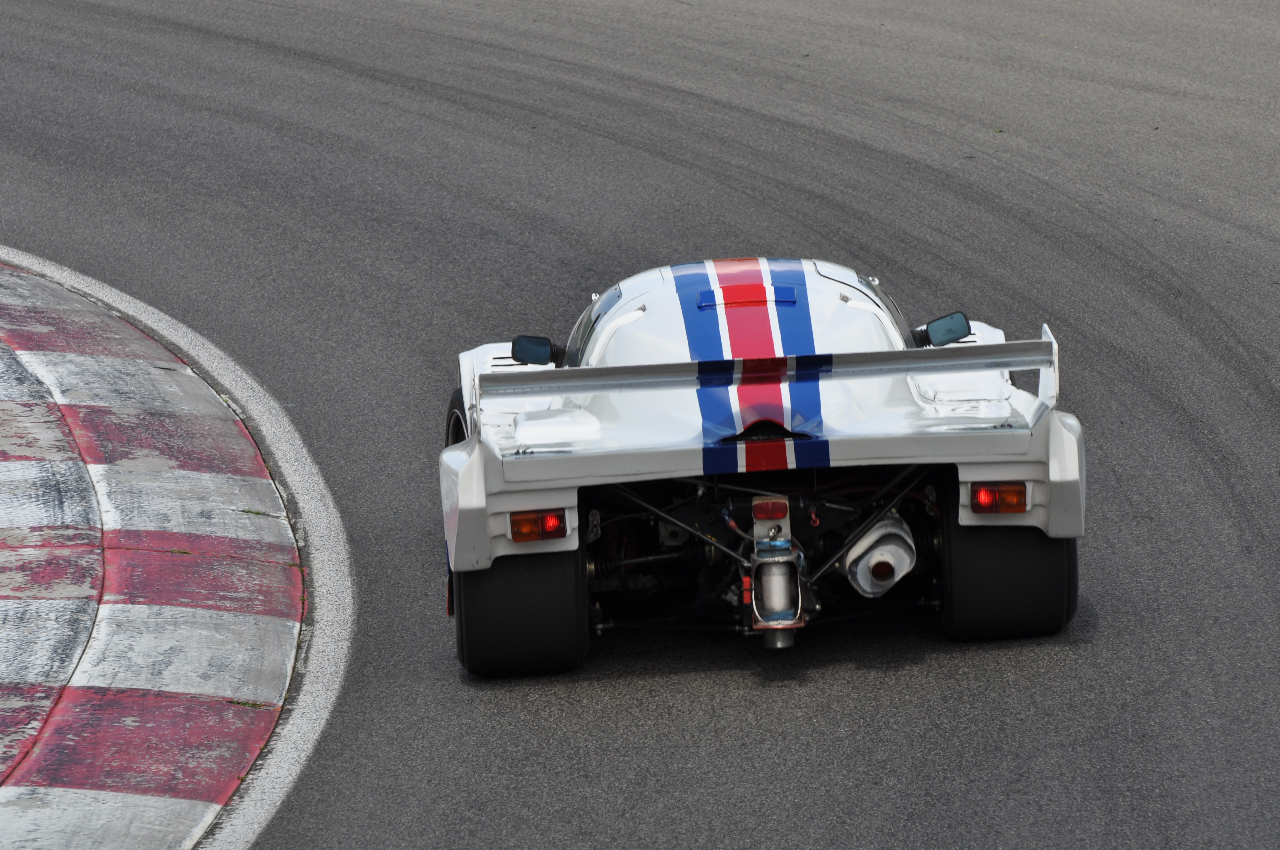 Denis Bigioni rounds Bridge Turn in his 1985 Tiga GT racing car, during the 2010 Legends of Motorsport meeting at Circuit Mont-Tremblant.